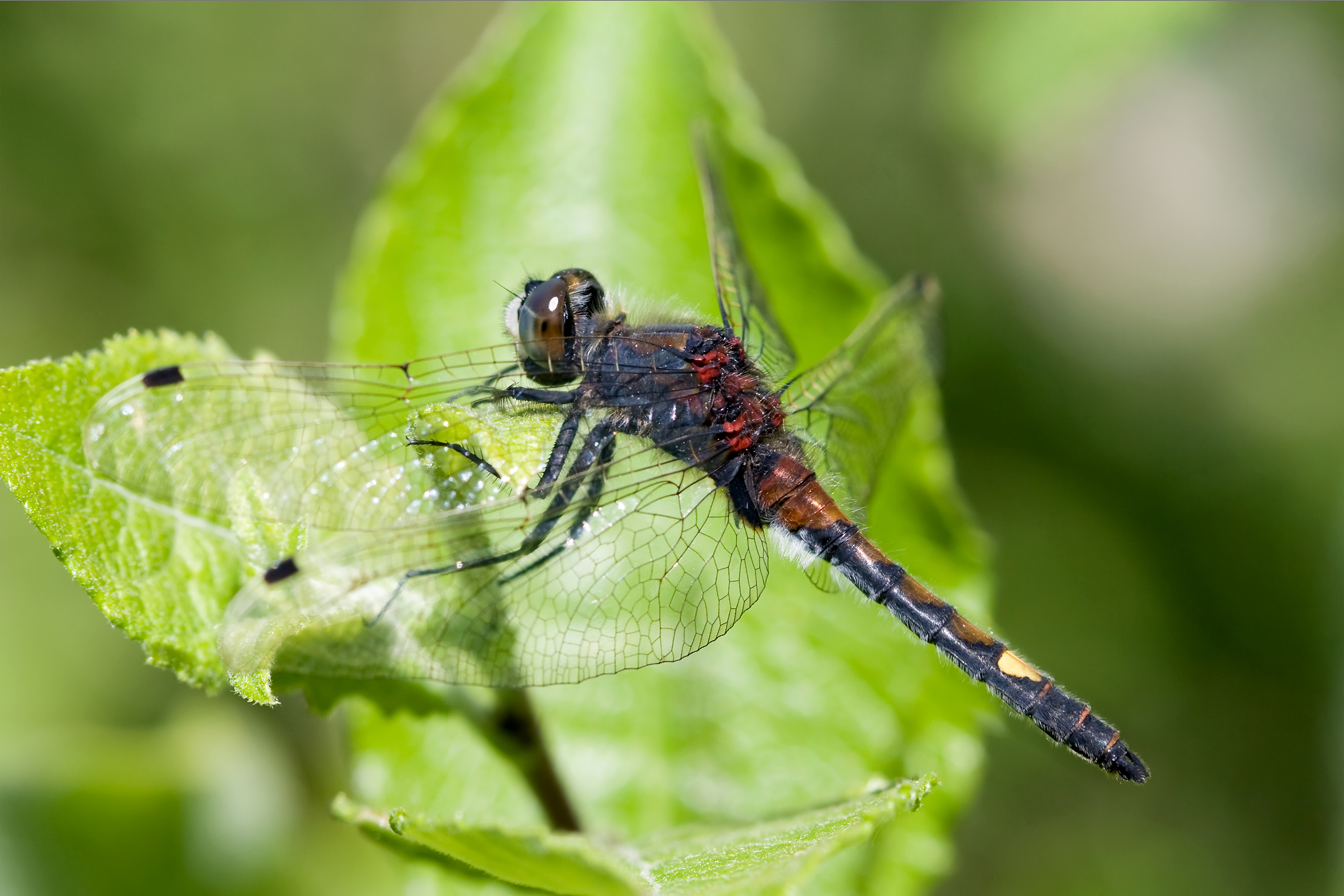 A male of the Yellow-Spotted Whiteface (Leucorrhinia pectoralis) in the Ahlenmoor, a peatland in northern Lower Saxony, Germany. Note the species-typical bright yellow spot on the seventh segment of the males that distinguishes the species of the otherwise quite similar Leucorrhinia dubia or Leucorrhinia rubicunda.